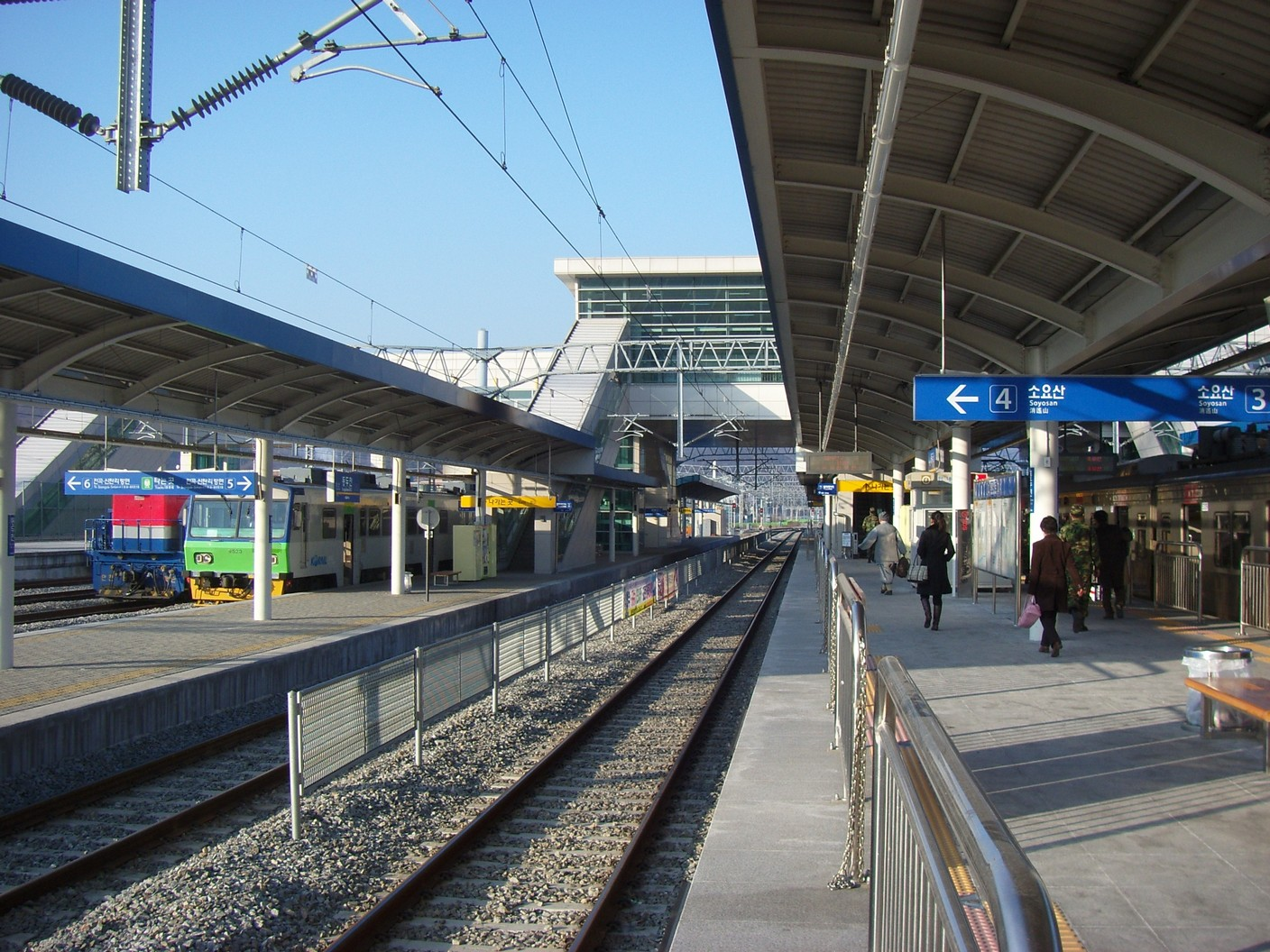 Dongducheon Station